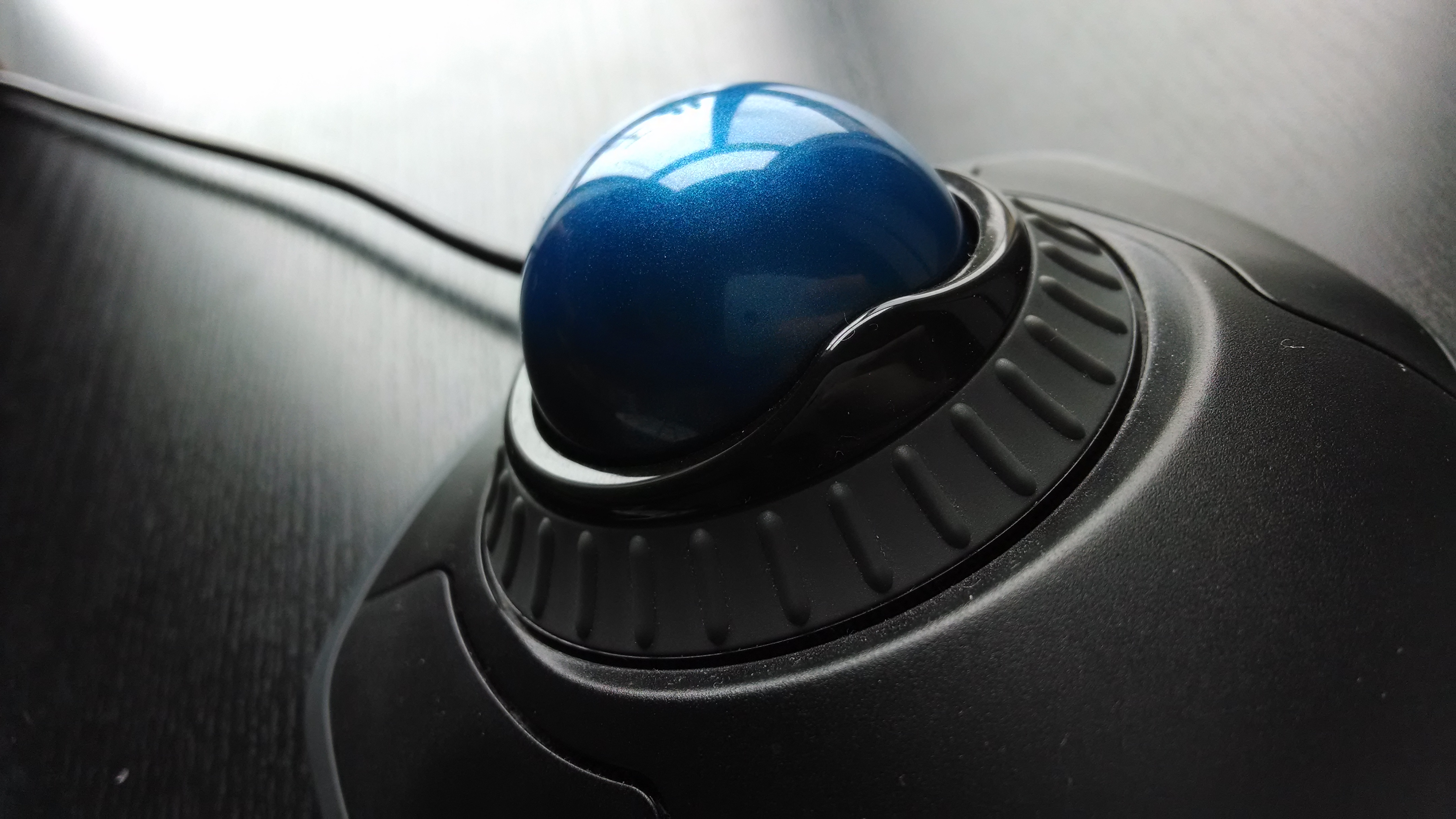 saw it, shot it